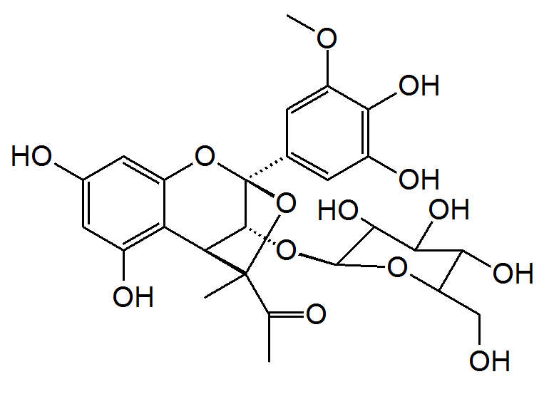 Chemical structure of castavinol